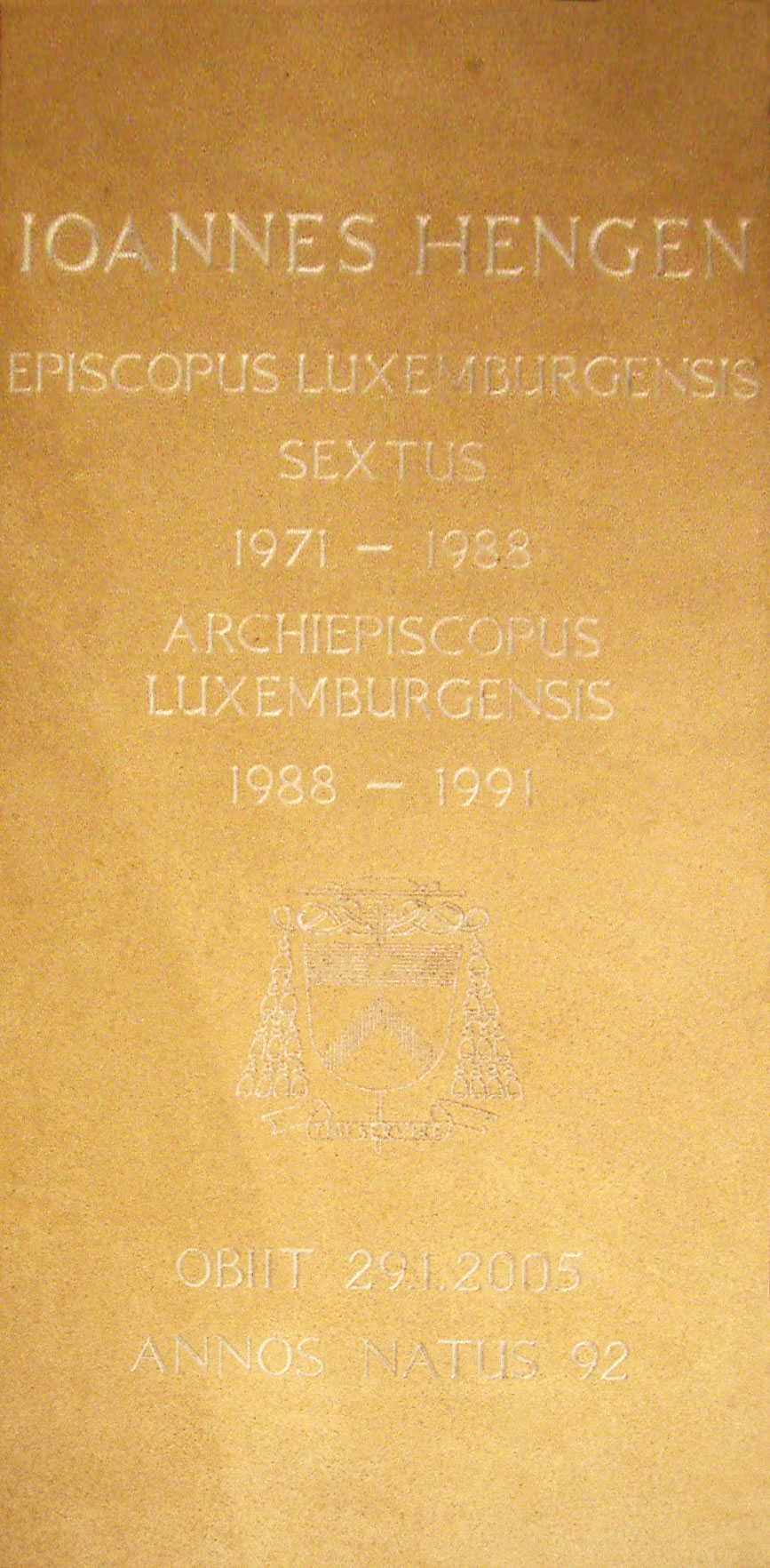 Gravestone of Bishop Jean Hengen + January 29 2005, in the Crypt of the Cathedral of Luxembourg